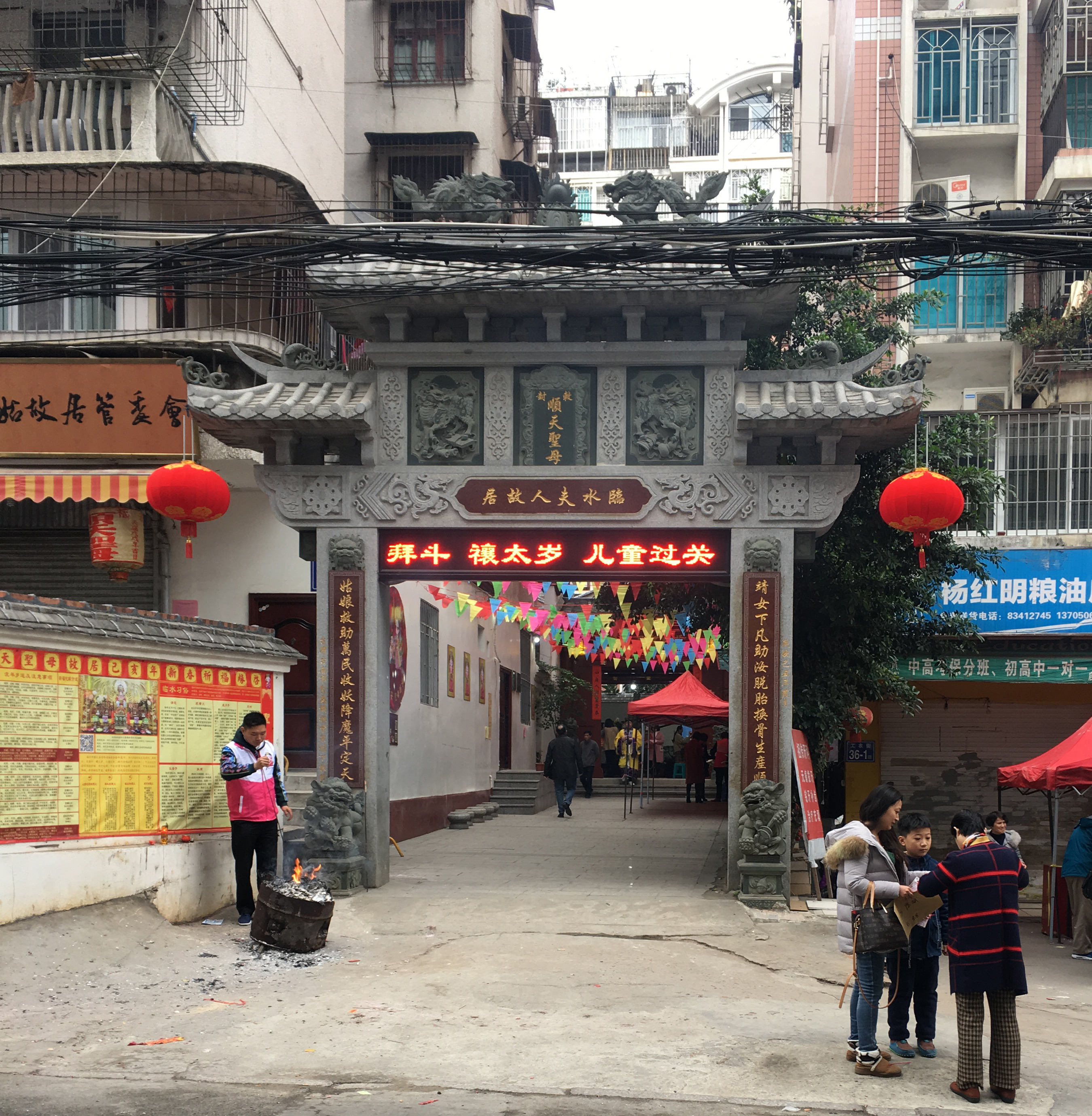 Former Residence of Mrs Linshui, located at Gongnong Road, Xiadu Subdistrict, Cangshan District, Fuzhou City, Fujian Province, China